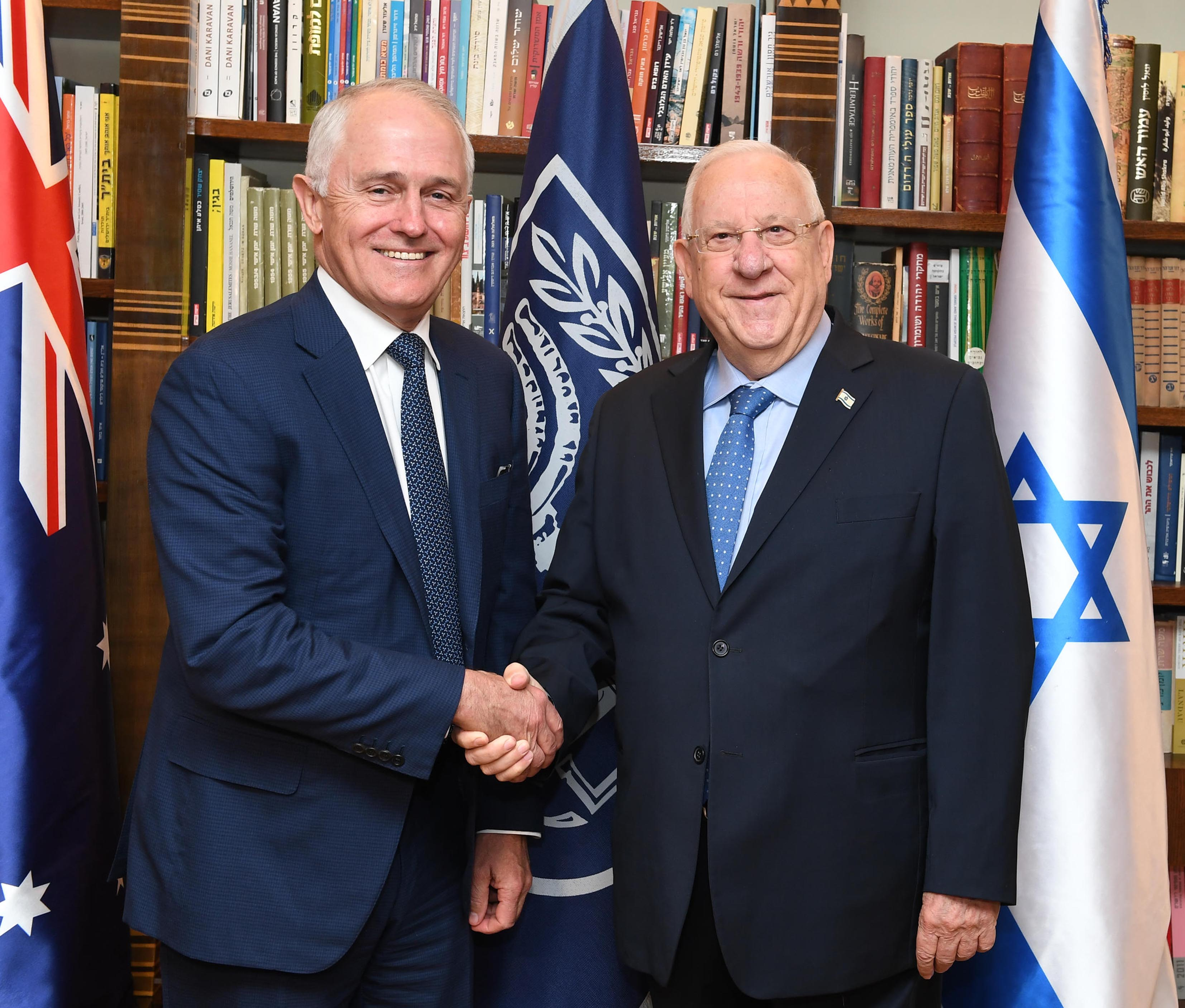 President of the State of Israel, Reuven Rivlin, met with Australian Prime Minister Malcolm Turnbull, who visited Israel as part of the events marking the 100th anniversary of the battle over Beer Sheva. Wednesday, November 1, 2017. Photo Credit: Mark Neyman / GPO.